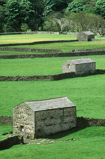 Traditional stone-built barns at Gunnerside, Swaledale, North Yorkshire, GB